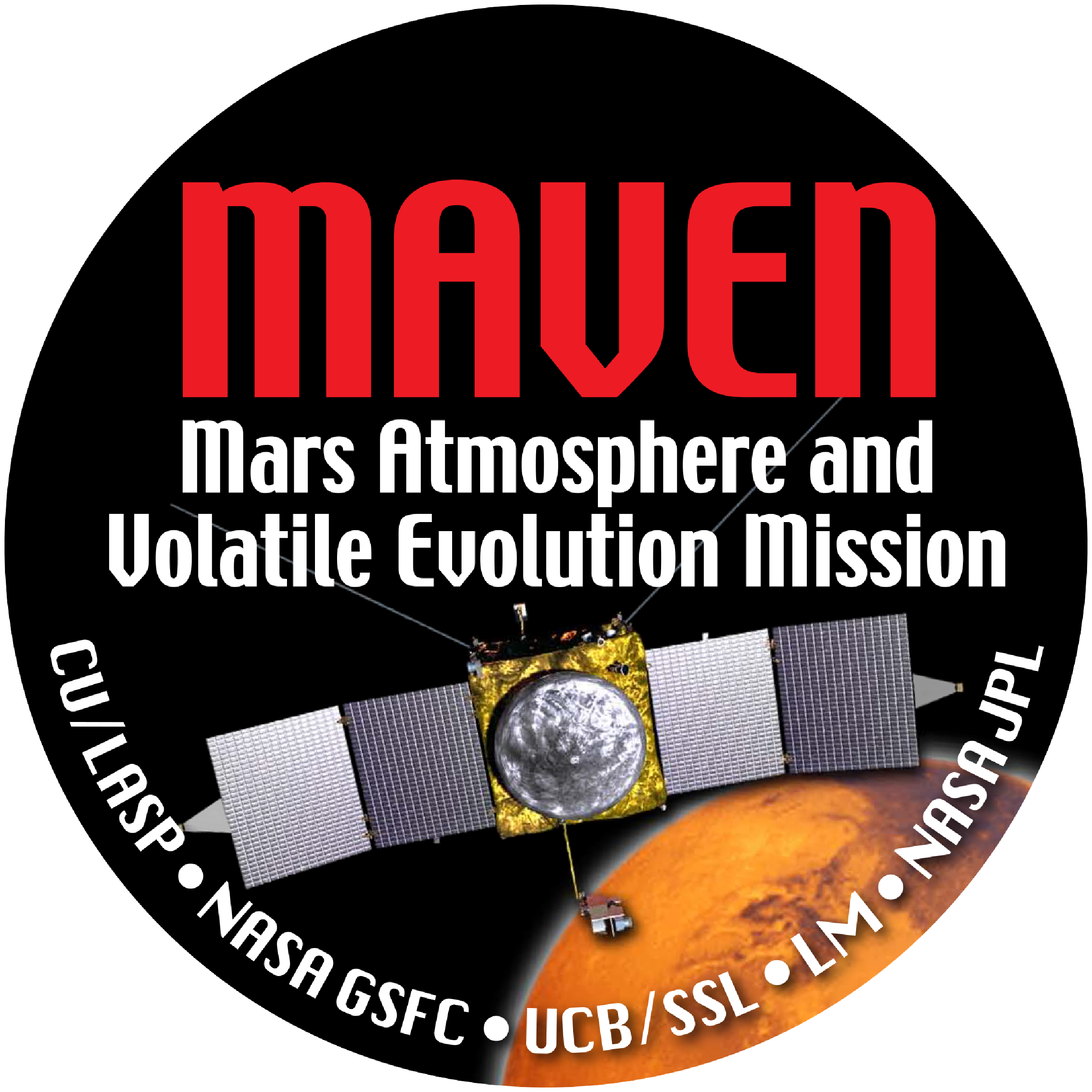 The Mars Atmosphere and Volatile Evolution, or MAVEN, mission is being prepared for its scheduled launch on Nov 18, 2013 from Cape Canaveral Air Force Station, Fla. atop a United Launch Alliance Atlas V rocket. Positioned in an orbit above the Red Planet, MAVEN will study the upper atmosphere of Mars in unprecedented detail. It will arrive at Mars in fall 2014. After a five-week transition period during which it will get into its final orbit, deploy booms, and check out the science instruments, MAVEN will carry out its one-Earth-year primary mission. MAVEN will have enough fuel to survive for another six years and will act as a data relay for spacecraft on the surface, as well as continue to take important science data. MAVEN's principal investigator is based at the University of Colorado, Boulder's Laboratory for Atmospheric and Space Physics CU/LASP. The university provided science instruments and leads science operations, as well as education and public outreach, for the mission. NASA Goddard Space Flight Center NASA GSFC, Greenbelt, Md. manages the project and provided two of the science instruments for the mission. The University of California at Berkeley's Space Sciences Laboratory UCB/SSL provided science instruments for the mission. Lockheed Martin LM built the spacecraft and is responsible for mission operations. NASA's Jet Propulsion Laboratory NASA JPL in Pasadena, Calif., provides navigation support, Deep Space Network support, and Electra telecommunications relay hardware and operations.